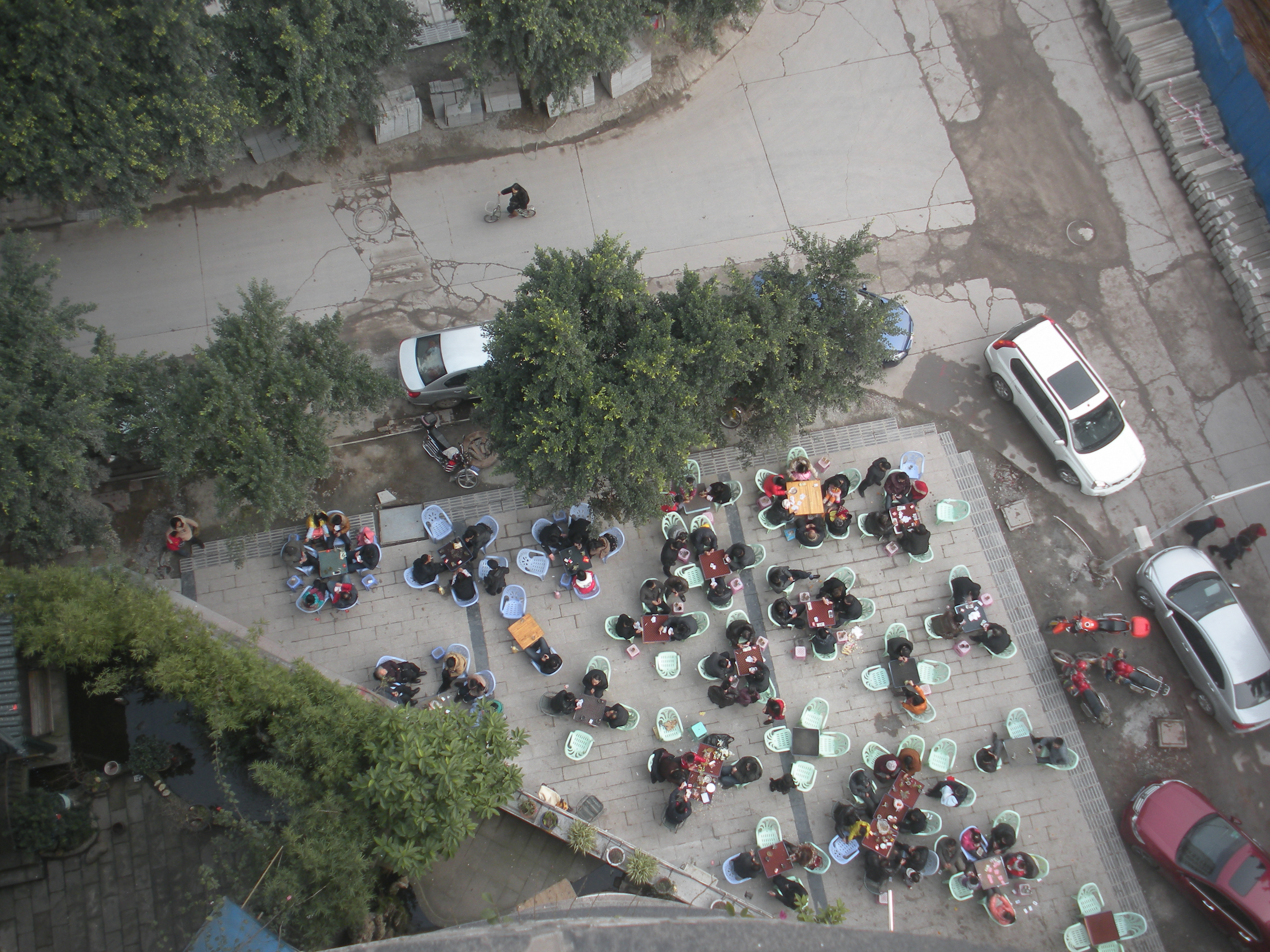 People are playing mah-jong in one uptown garden,Hechuan,Chongqing.The photo has been taken by Prof.Chen Hualin.